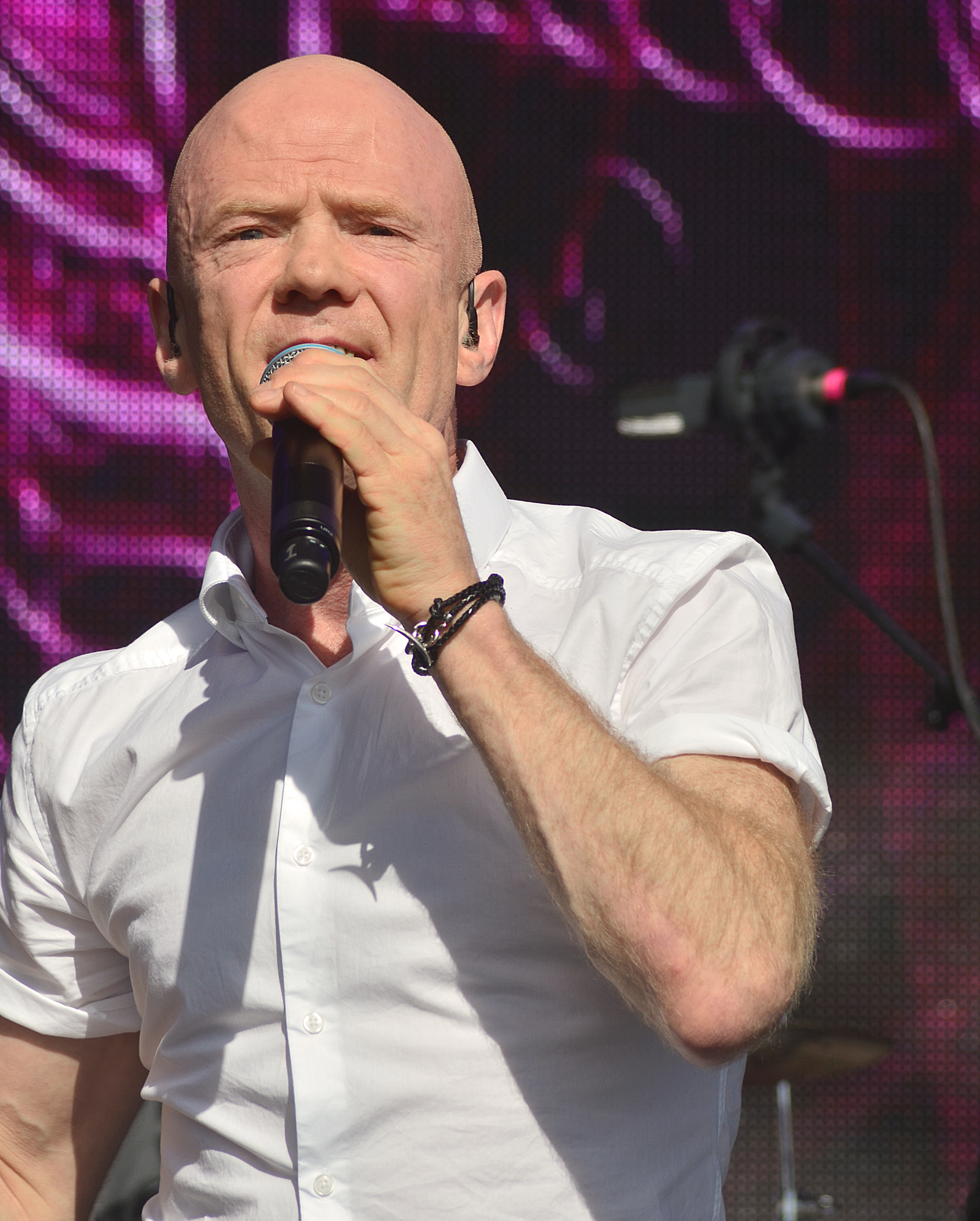 This is singer Jimmy Somerville from British bands Bronski Beat and The Communards. He also had a successful solo career. This was Jimmy performing at Let's Rock Bristol, UK in June 2015.